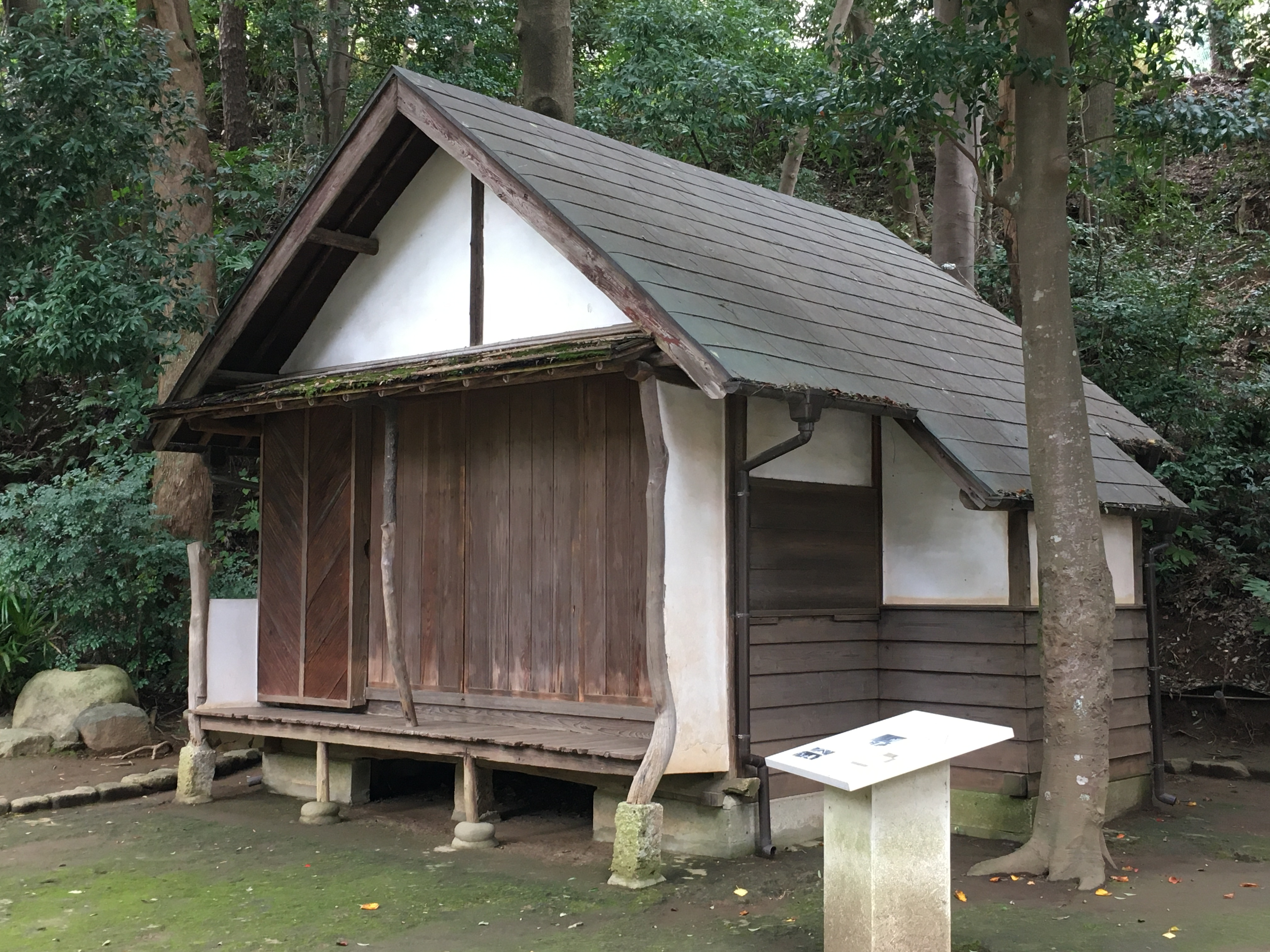 Study hut of Naoya Shiga (Abiko, Chiba prefecture of Japan)